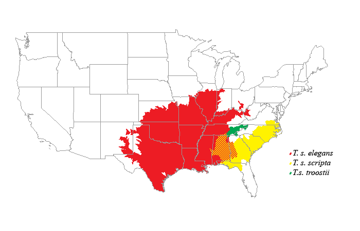 Composite from several USGS maps.